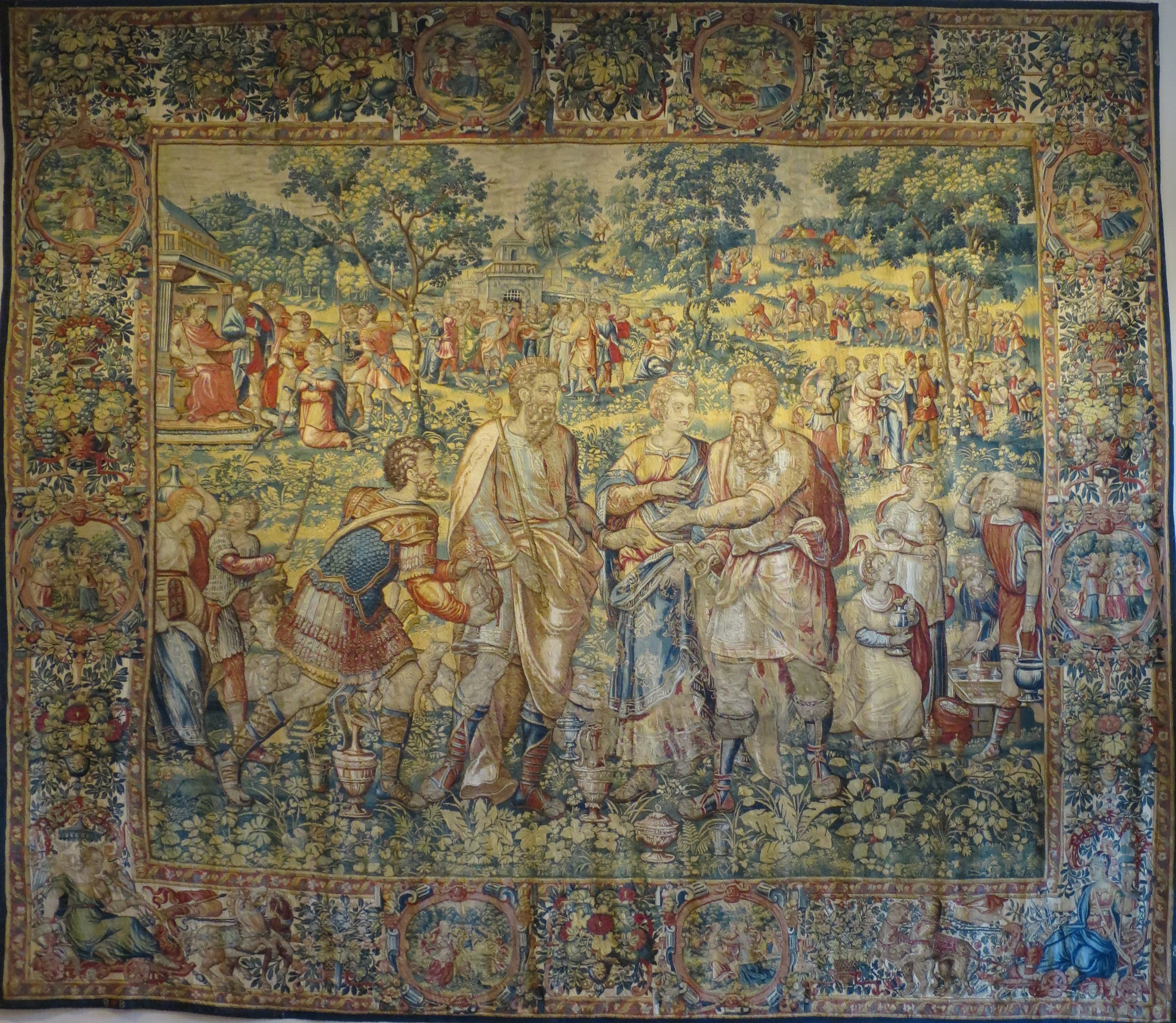 King Abimelech Restores Sarah to her Husband, Abraham, Flemish wool and silk tapestry by Frans Geubels, c. 1560-70, Dayton Art Institute